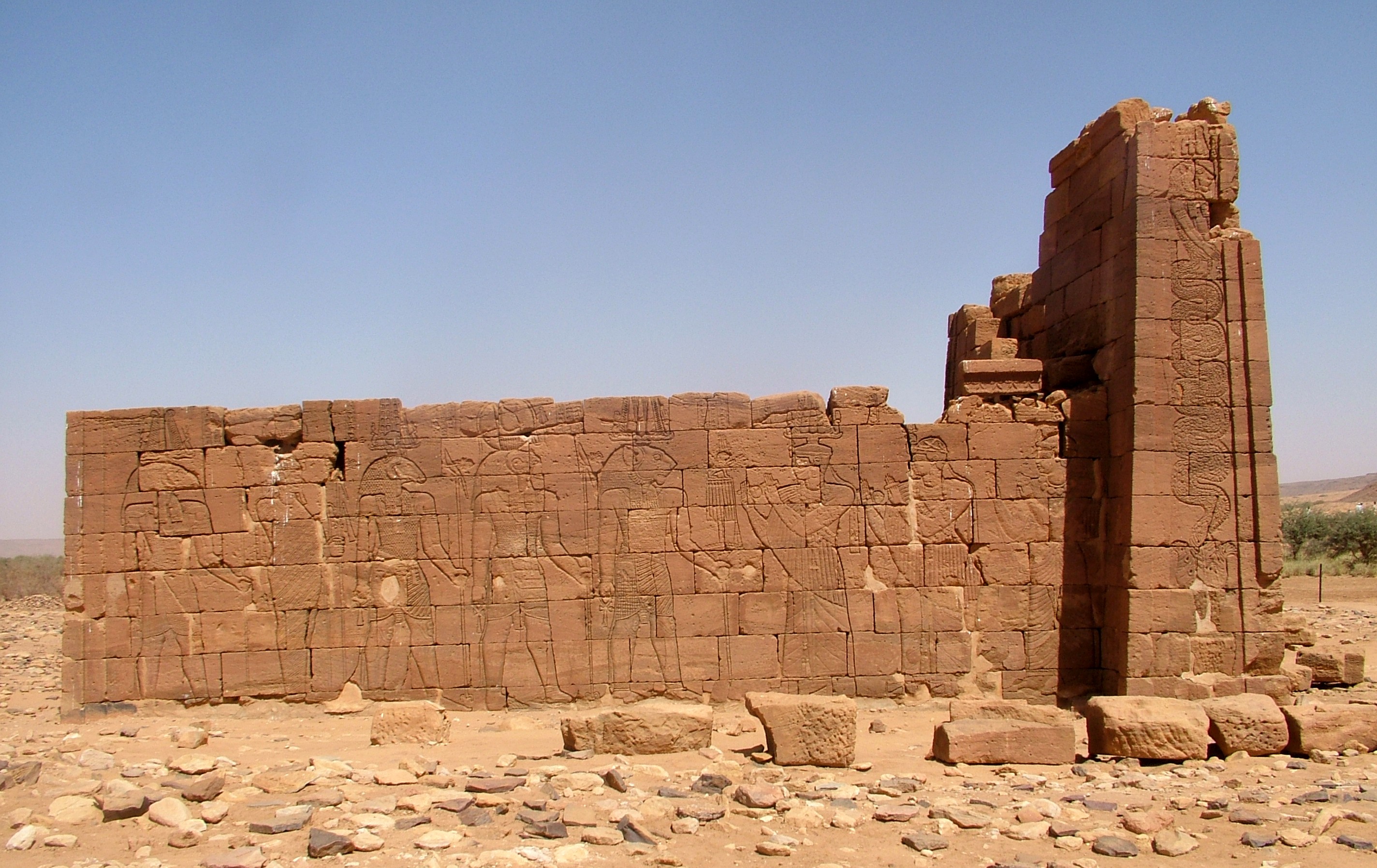 Apedamak temple side, Natakamani and Amanitore in front of Nubian gods, Naqa, Sudan